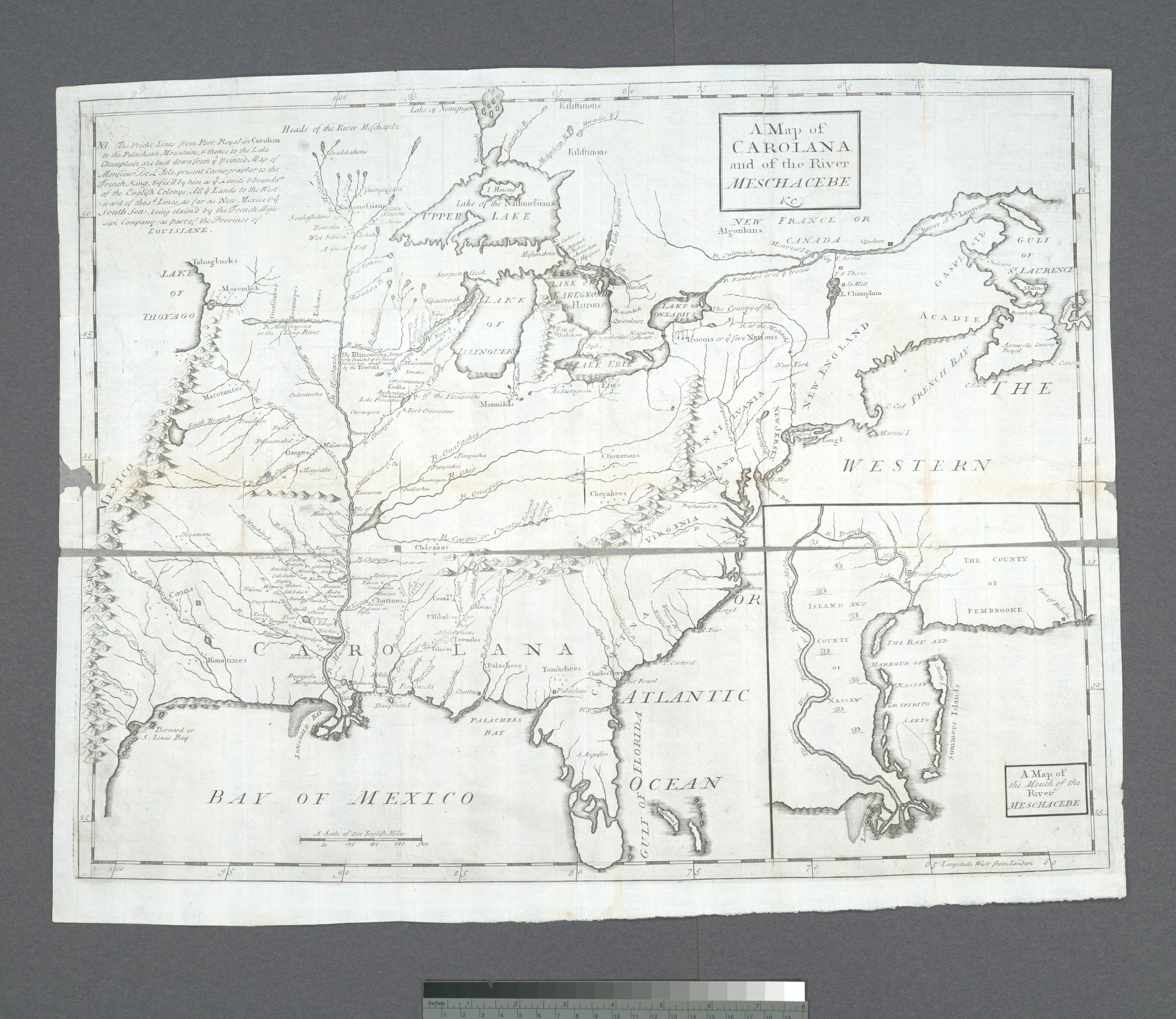 Appears in Coxe's Description of the English province of Carolana, 1722 and later eds. Covers U.S. as far west as the Rocky Mountains. Includes notes. Inset: Map of the mouth of the River Meschacebe. Lawrence H. Slaughter Collection ; 543. National Endowment for the Humanities Grant for Access to Early Maps of the Middle Atlantic Seaboard. Prime meridian London. Relief shown pictorially. Citation/Reference: Cumming, W.P. Southeast in early maps, 190